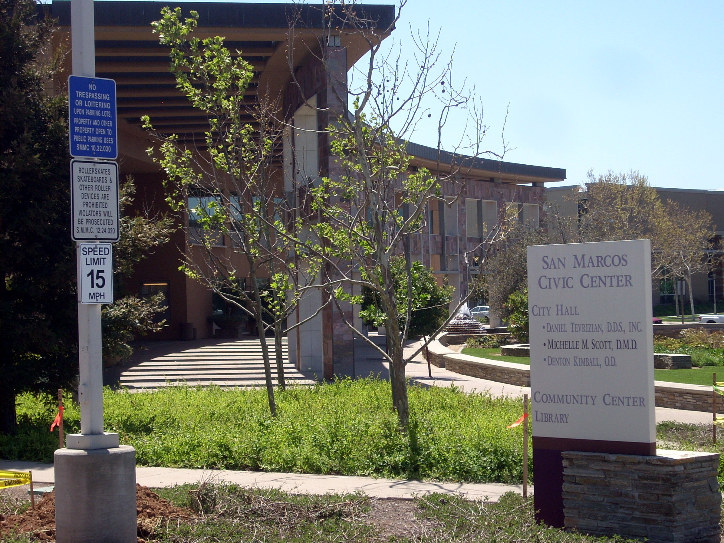 Side view photograph of the San Marcos, California, Civic Center